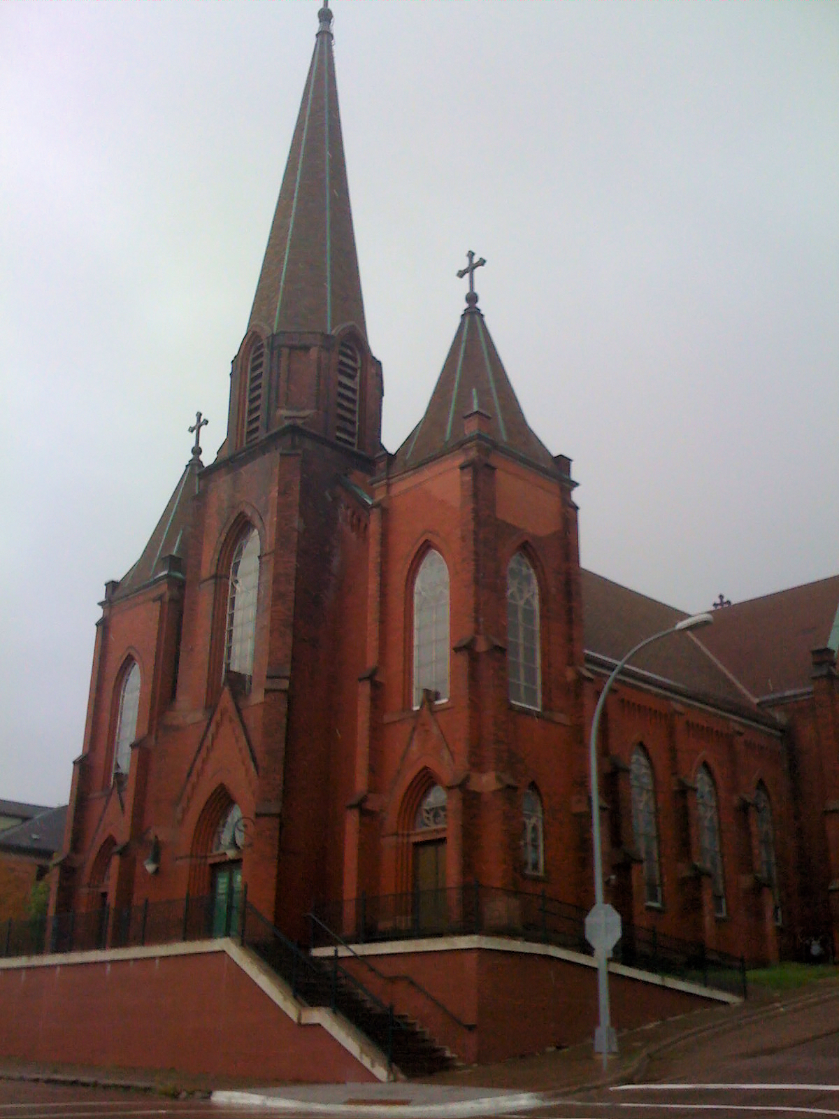 Sacred Heart Cathedral and Cathedral School in Duluth, Minnesota, listed on the National Register of Historic Places.